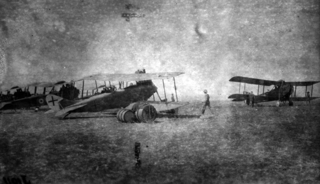 Photograph of 4 German biplanes at Afulah September 1918 and British plane in background Other information copyright expired